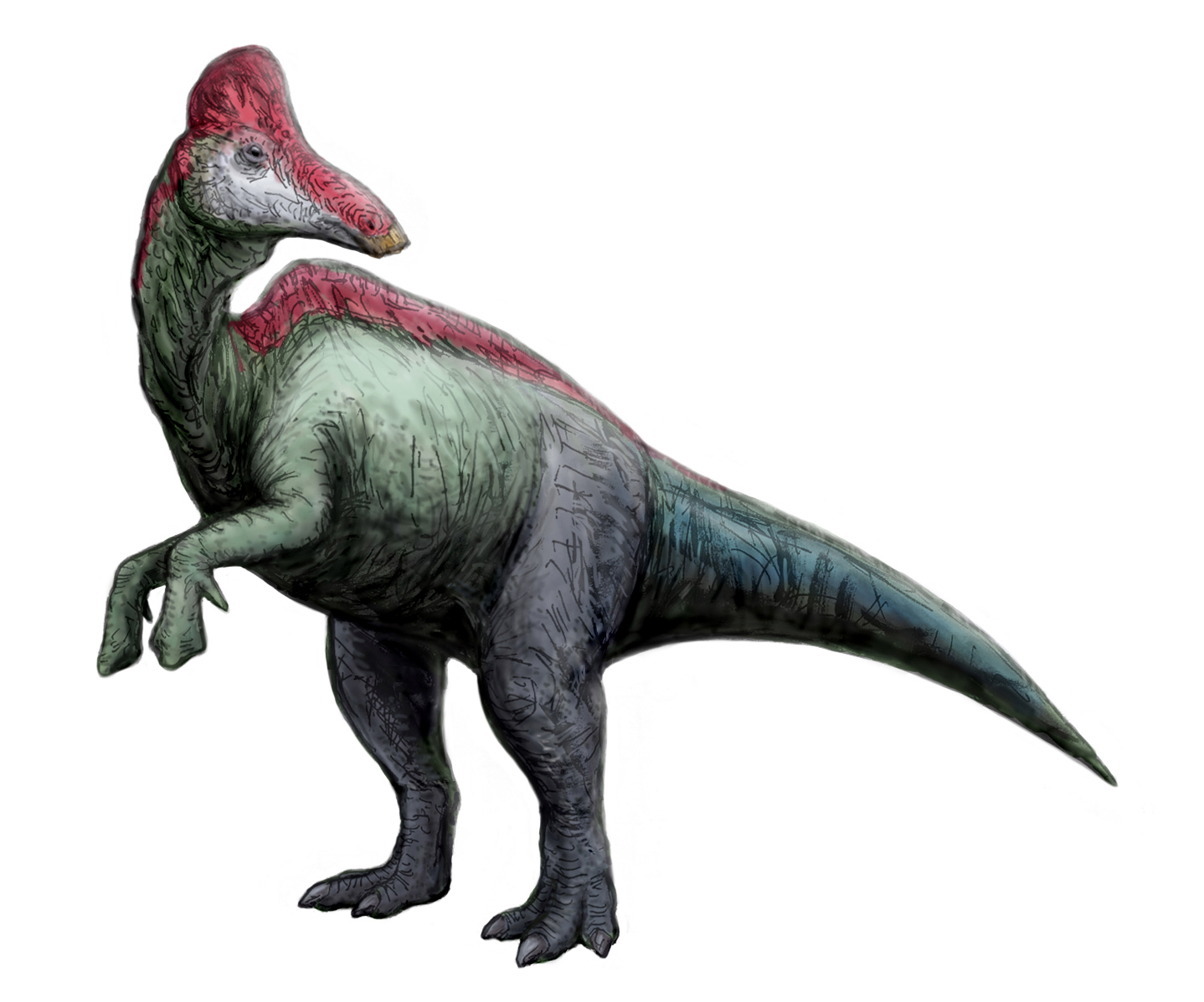 Restoration of Sahaliyania elunchunorum. Based on the description:[1]